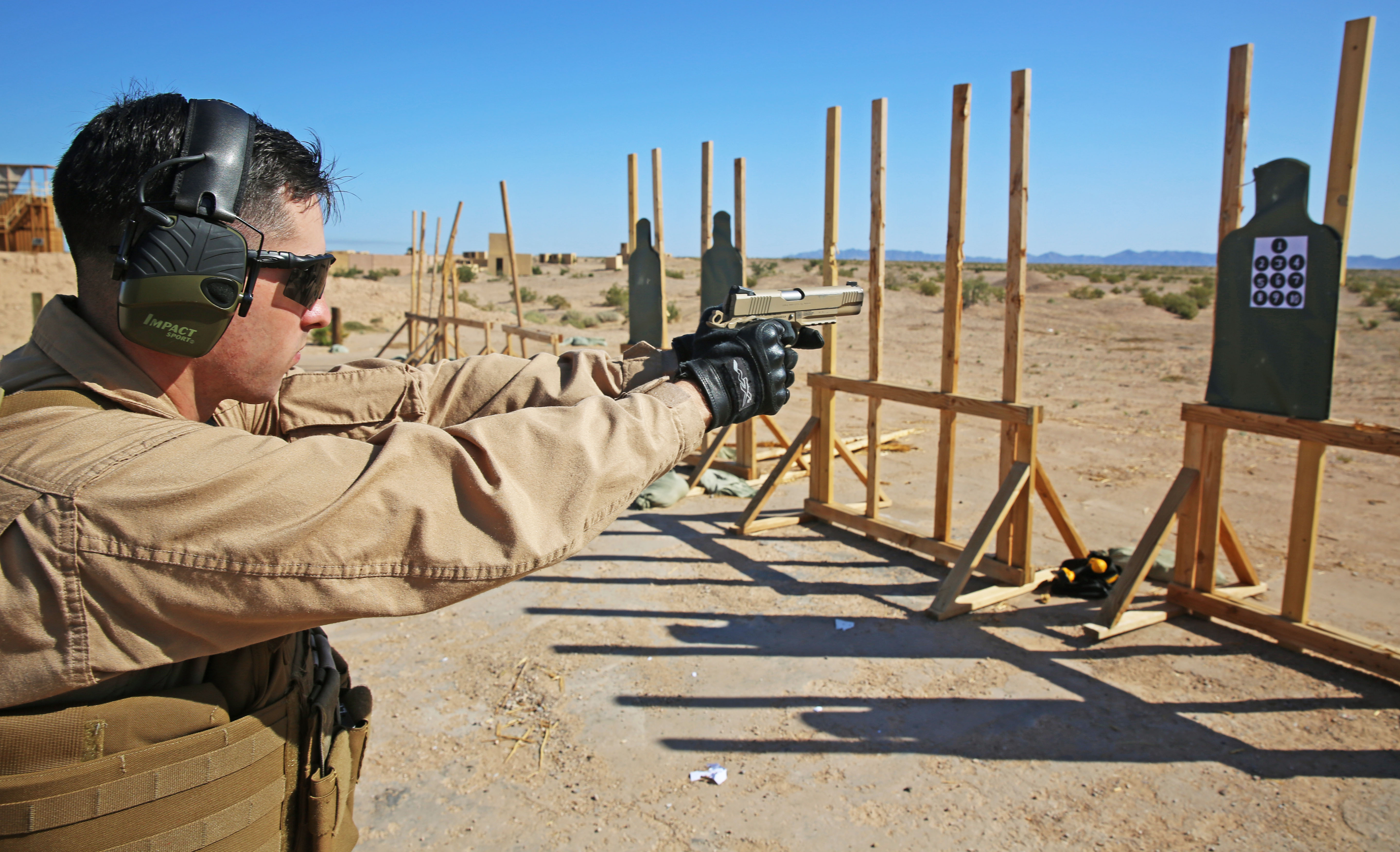 Corporal William Gilmer, a Special Reaction Team member with the Provost Marshal’s Office, Headquarters & Headquarters Squadron, fires his desert Colt Defense M1911A1 pistol as part of a quarterly training session at the rifle range aboard Marine Corps Air Station Yuma, Ariz., March 25. The dot target drills are utilized to help improve shooter aim and accuracy at varying distances.